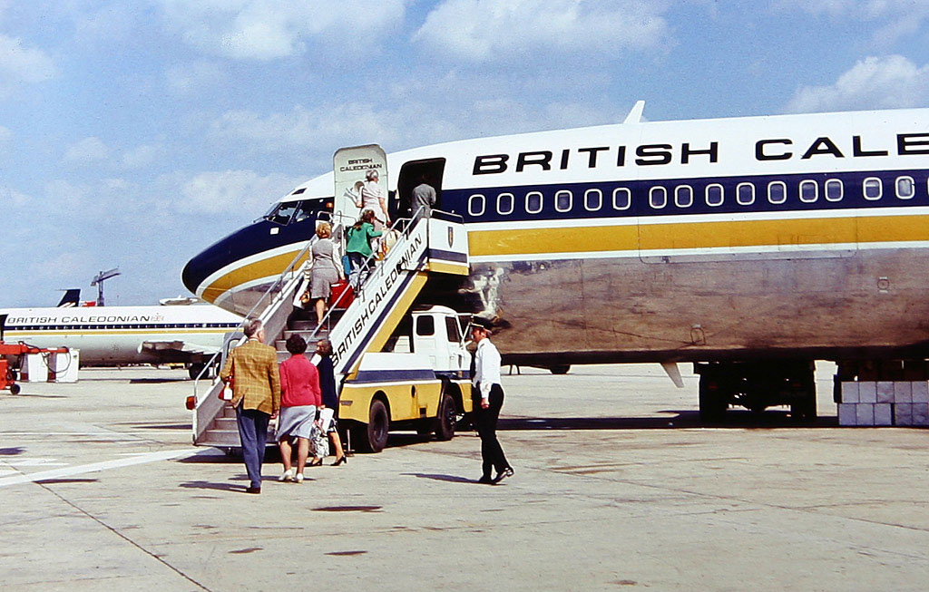 British Caledonian Boeing 707 at Gatwick Airport, London, England.